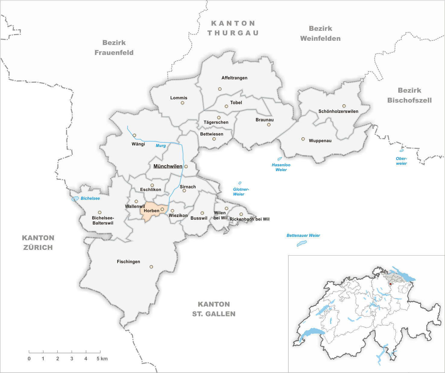 Municipality Horben